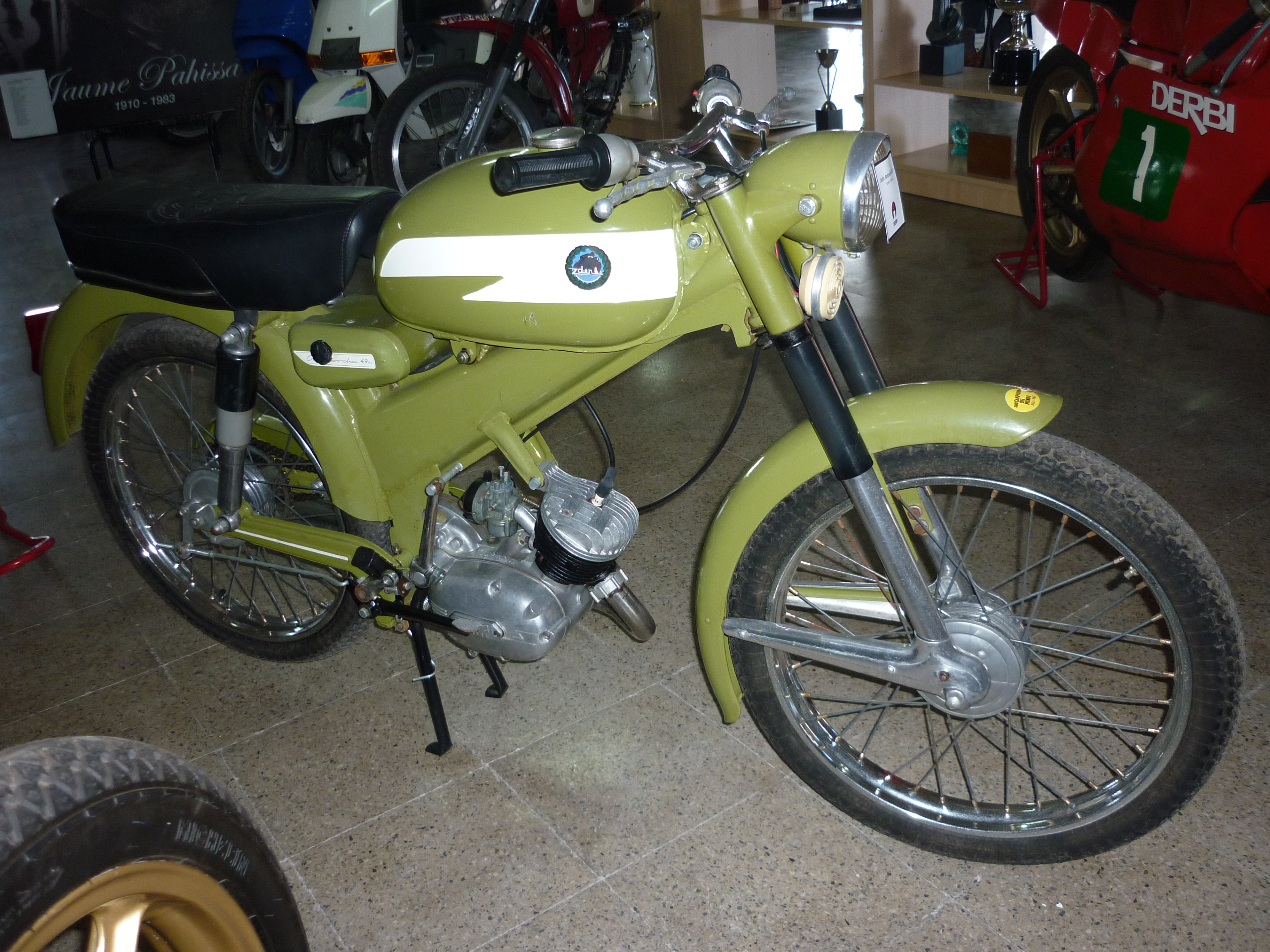 Derbi Antorcha 49cc (1966)